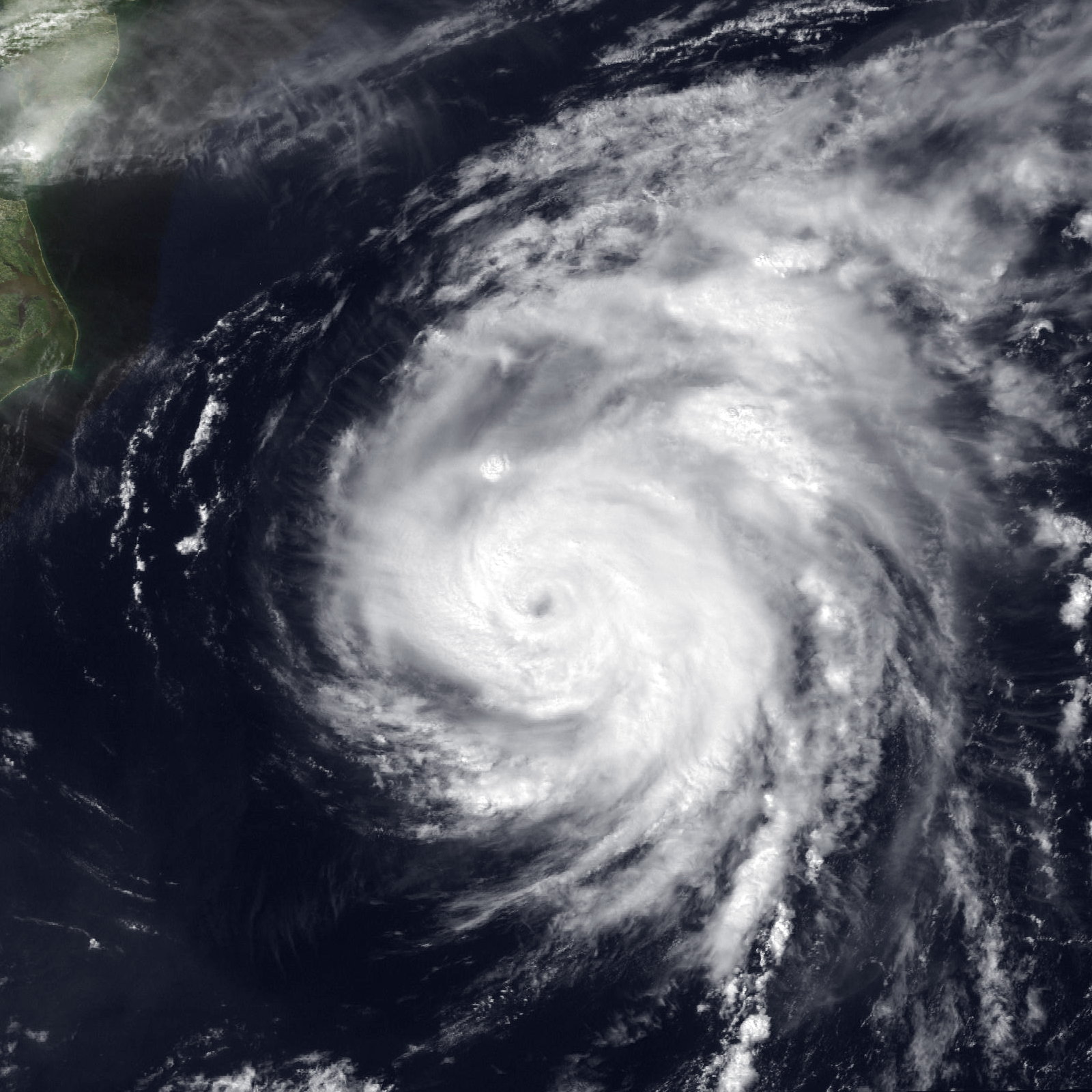 Hurricane Danielle off the coast of North Carolina as a Category 2 hurricane on September 1, 1998